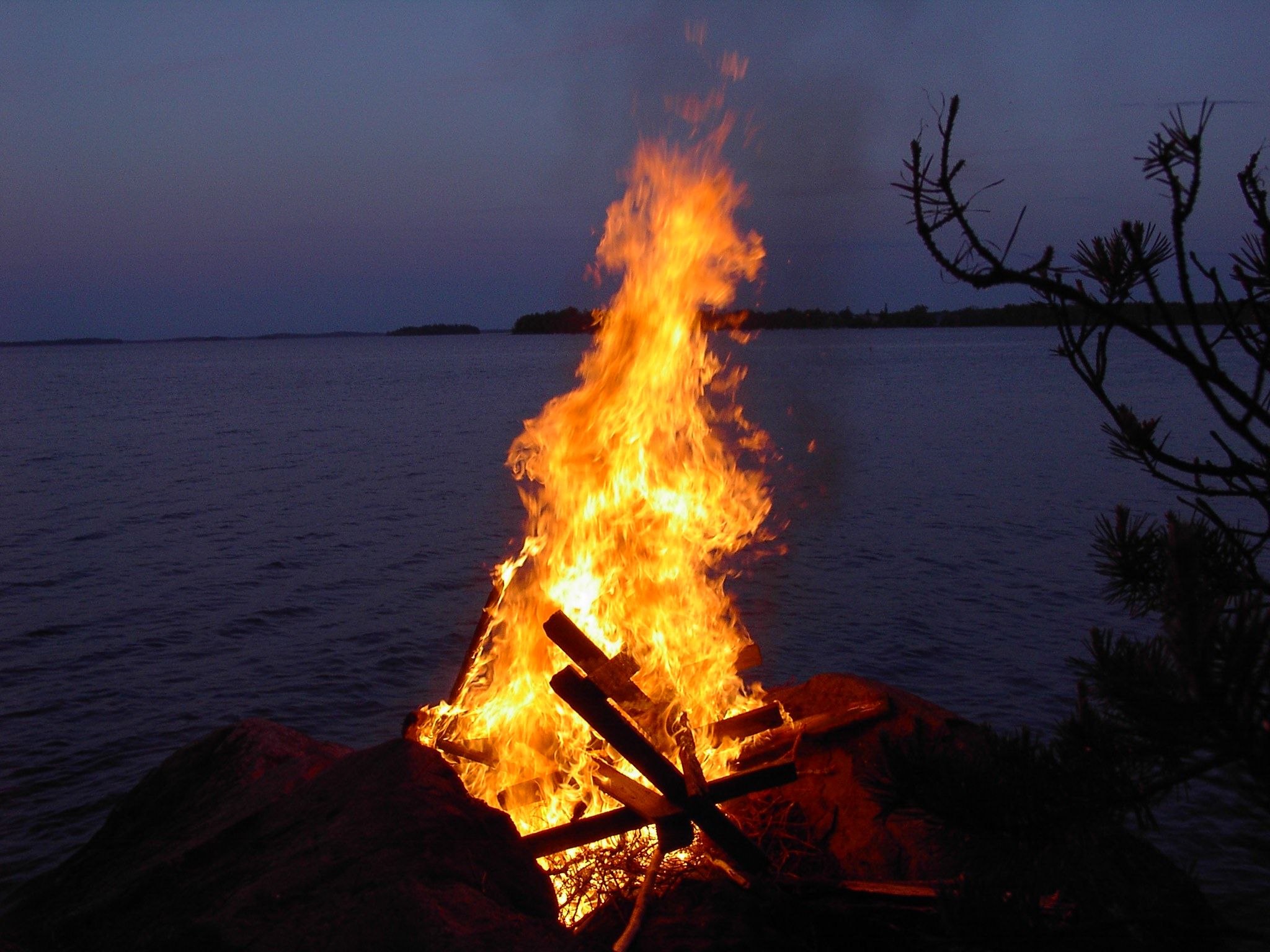 Midsummer bonfire in Pielavesi, Finland